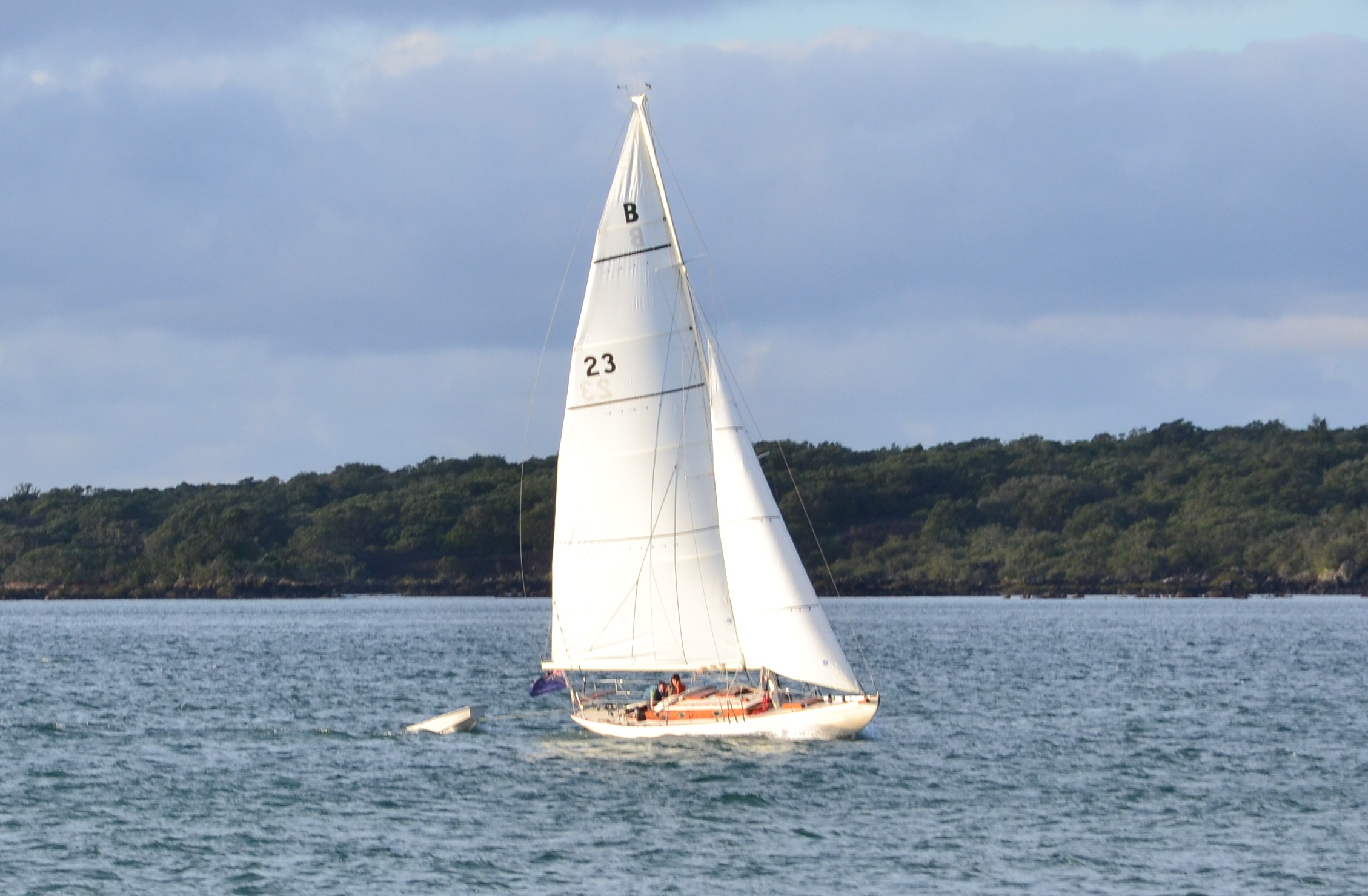 Classic yacht in Auckland, New Zealand